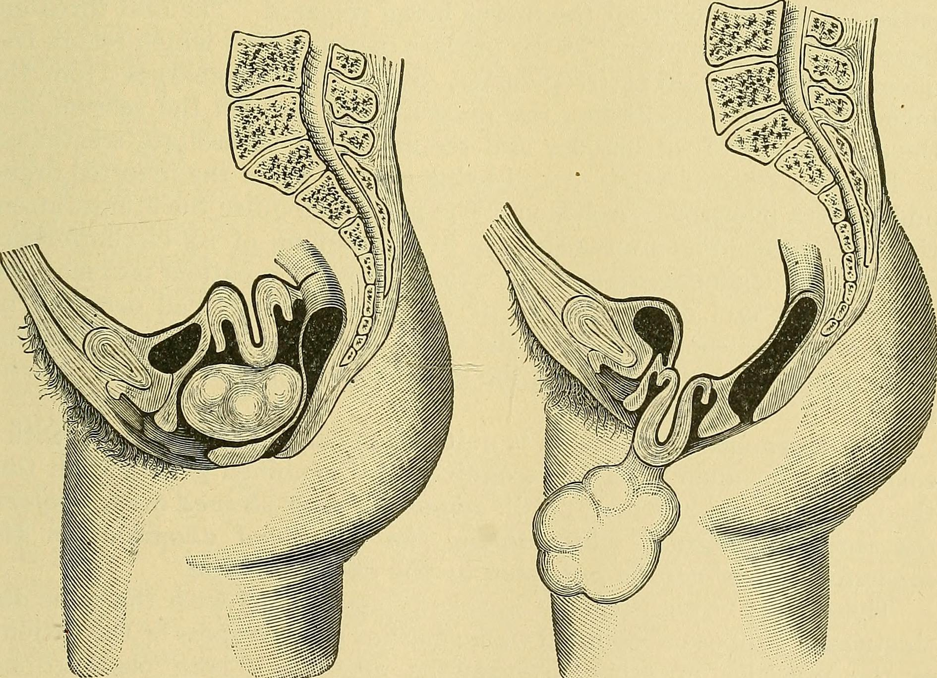 Title: Pathology and treatment of diseases of women Year: 1912 (1910s) Authors: Martin, August Eduard, 1847- Jung, Ph. (Philipp Jacob), 1870-1918 Subjects: Gynecology Gynecology Publisher: New York : Rebman company Text Appearing Before Image: Fig. 85.—Inversio Uteri Incompleta. a, vaginab, cervix; c, corpus ; d funnel of the inversion. Text Appearing After Image: Fig. 86.—Inversio Uteri Completa.(Schematic.) Fig. 87. —Inversio Uteri Completa CumProlapsu. (Schematic.) corpus uteri, which appears with its fundus through the cervix at the ex-ternal os: Inversio uteri incompleta (Fig. 85), or corpus and cervix are 146 DISEASES OF WOMEN inverted—inversio uteri completa (Fig. 86)—and lie in the vagina. Thecompletely inverted uterus sinks down before the genitalia in extremecases—inversio uteri completa cum prolapsu (Fig. 87). The prolapsedportion mostly becomes gangrenous and disintegrates rapidly. The inversion arises always suddenly during the puerperium, and itis always accompanied by extremely threatening symptoms. The inver-sion is often effected gradually in non-puerperal cases, the expellingforces of the uterus are developed very gradually up to the intensitywhich is necessary to deliver the foreign body and thereby allow aninversion to take place. However, as in the process in puerperio, theinversion may occur very suddenly in thes